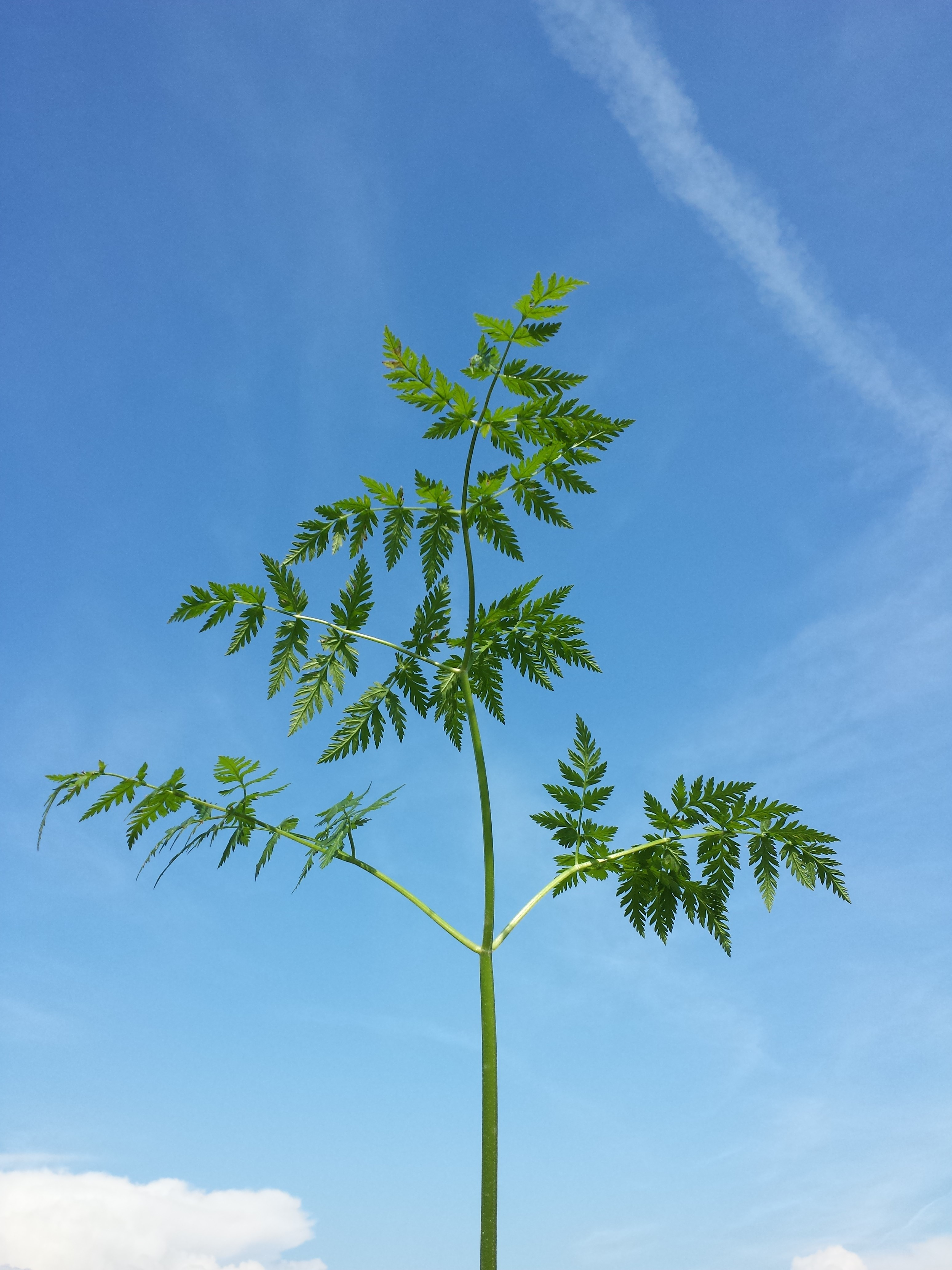 Leaf Taxonym: Anthriscus sylvestris ss Fischer et al. EfÖLS 2008 ISBN 978-3-85474-187-9 Location: near Steinberg near Niederhollabrunn, district Korneuburg, Lower Austria - ca. 300 m a.s.l. Habitat: wayside